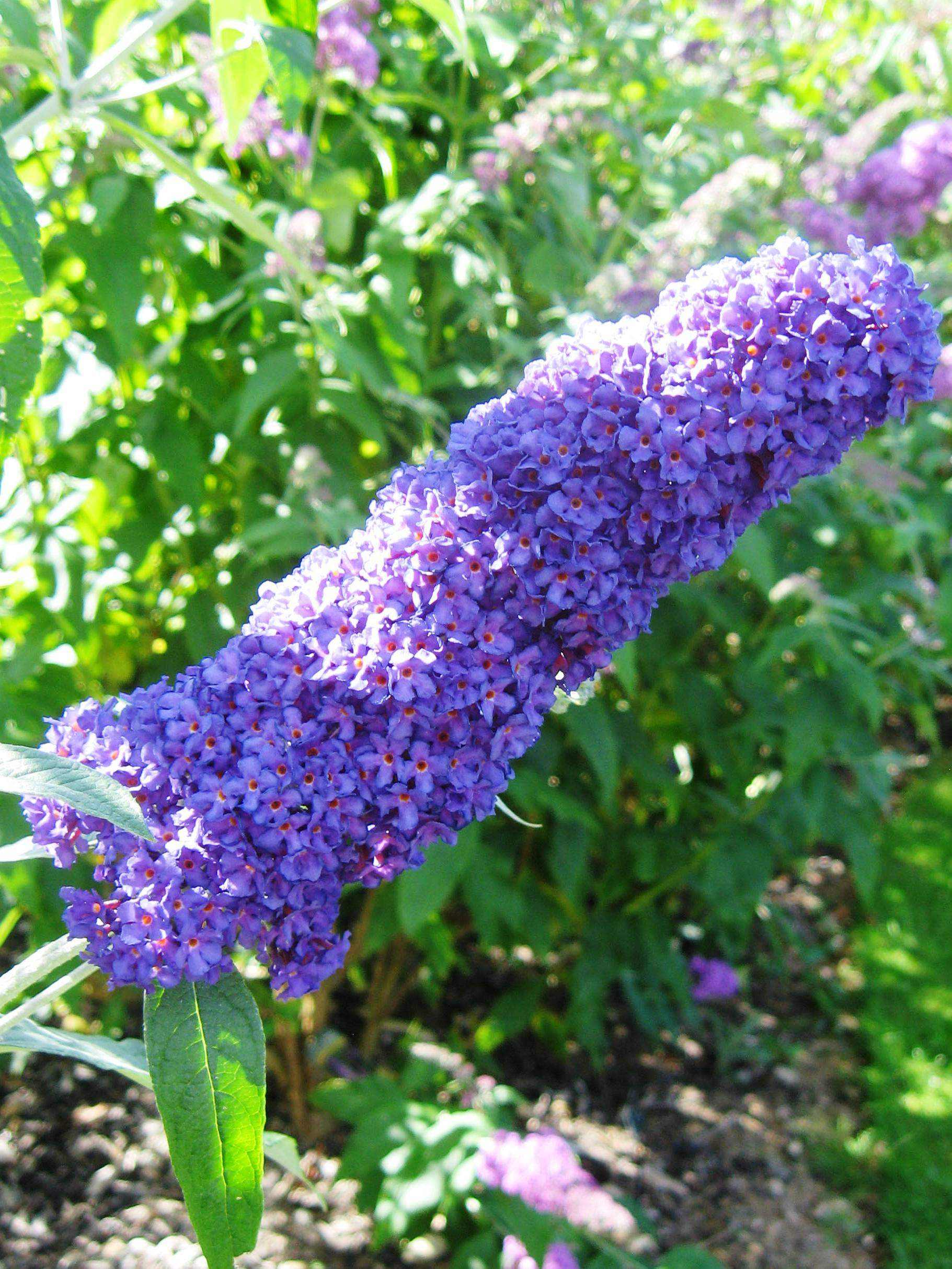 Photo of Buddleja davidii cultivar 'Griffen Blue' taken at Longstock Park, UK, August 2012